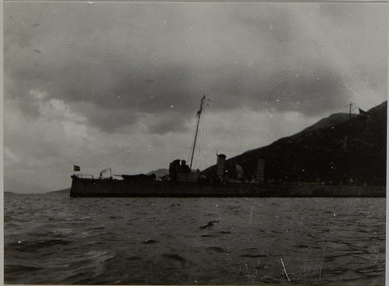 Probably SMS Komet torpedo gunboat.